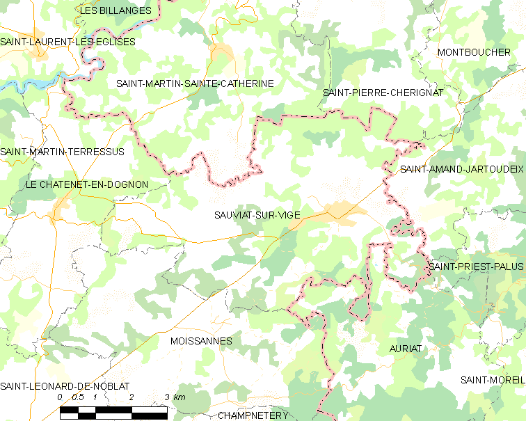 Map of French municipality Sauviat-sur-Vige